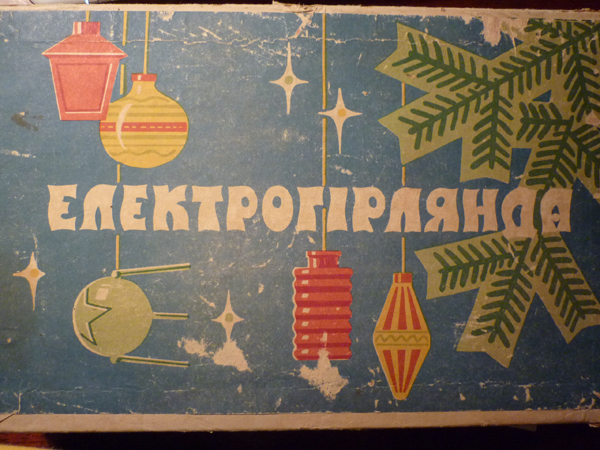 Electric Garland